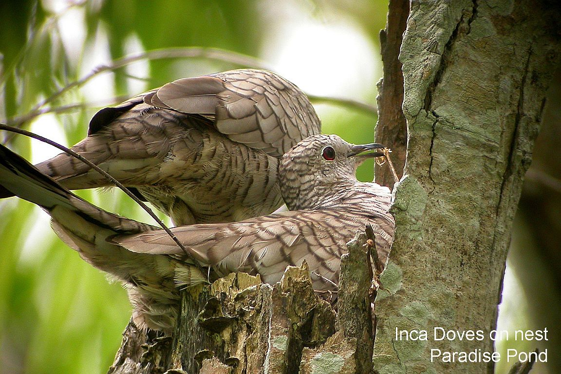 A pair of Inca Doves (Columbina inca) at Paradise pond, nesting in a tree right along the elevated walkway, oblivious to the hundreds of birders passing below.